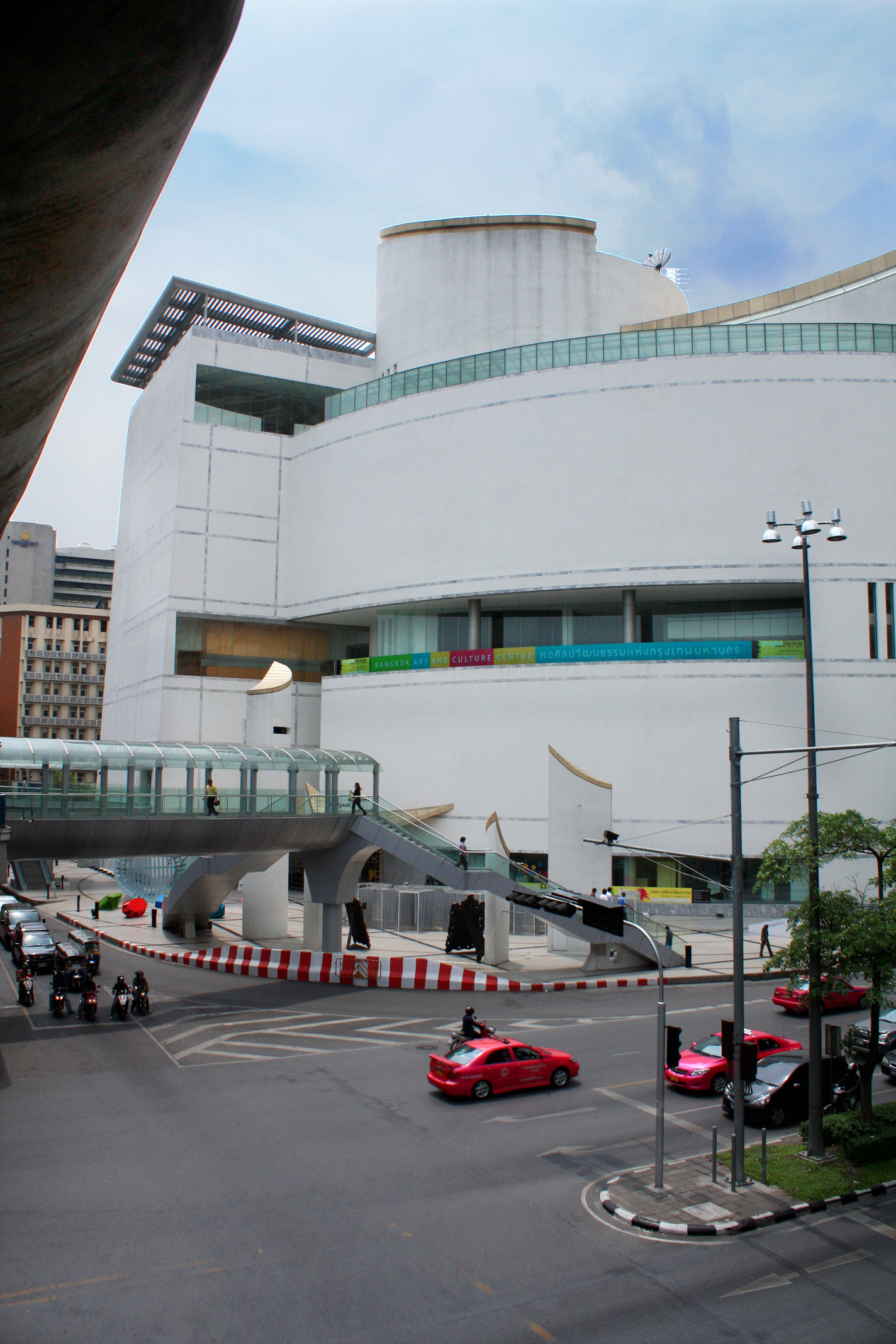 Bangkok Art and Culture Centre